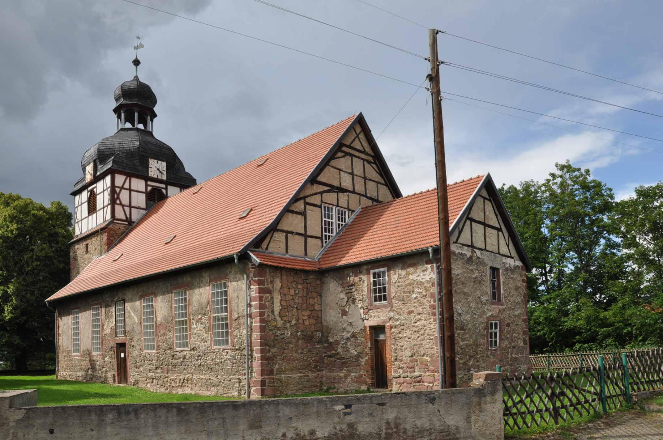 St. Andrews' church in Uftrungen was built between 1732-1734 in baroque style (municipality Südharz, district Mansfeld-Südharz, Saxony-Anhalt, Germany).